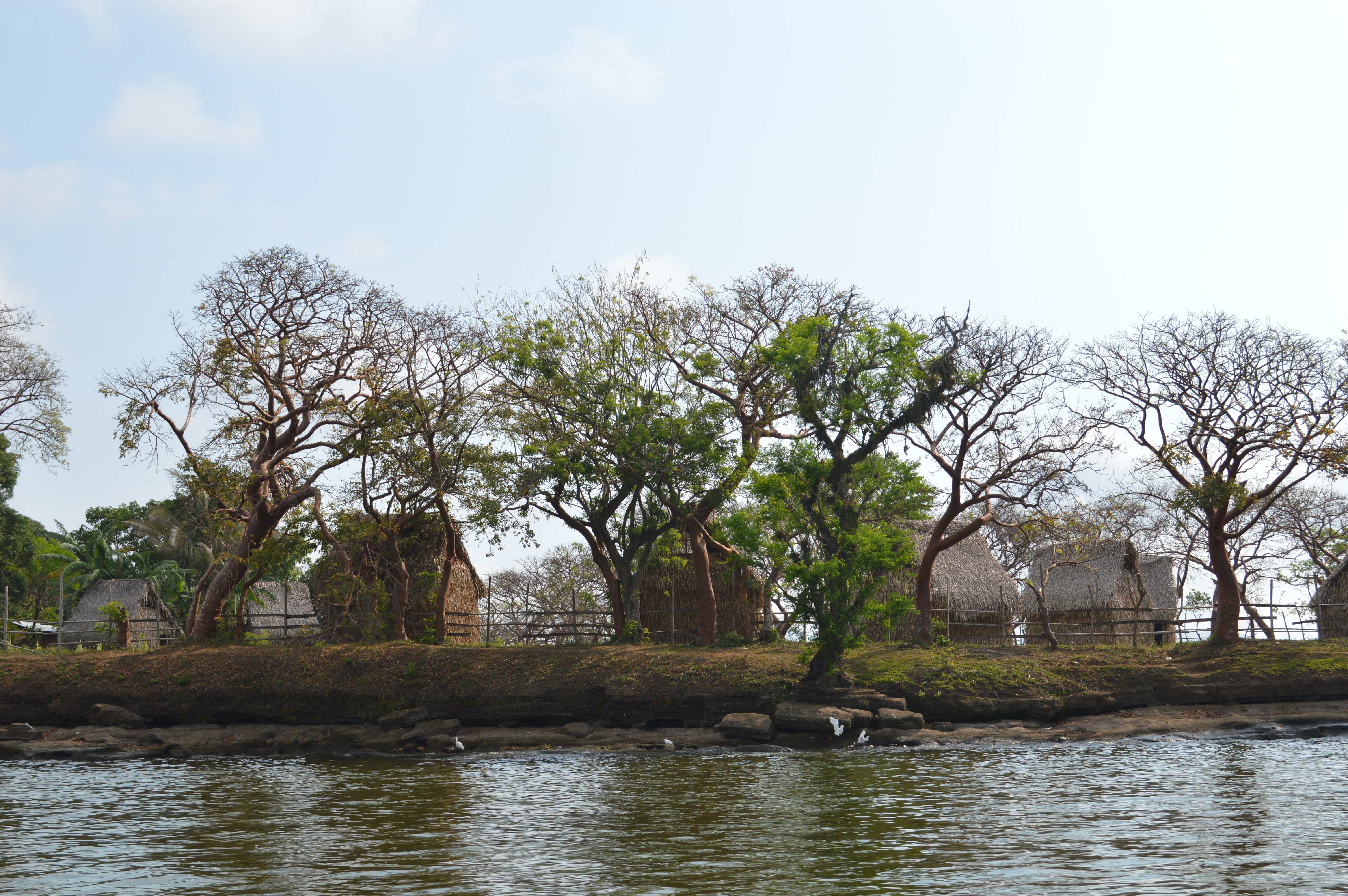 Reunion area or shamans and others in Catemaco, Veracruz, Mexico